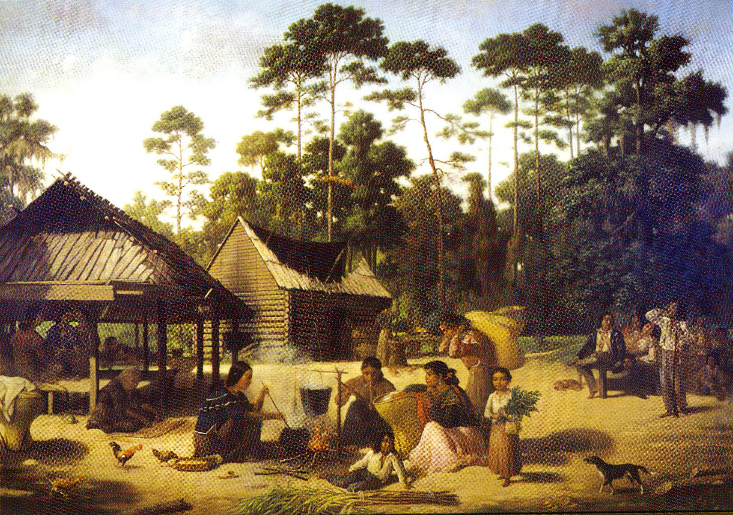 Choctaw Village near the Chefuncte, The women appear to be making dye to color the strips of cane beside them.